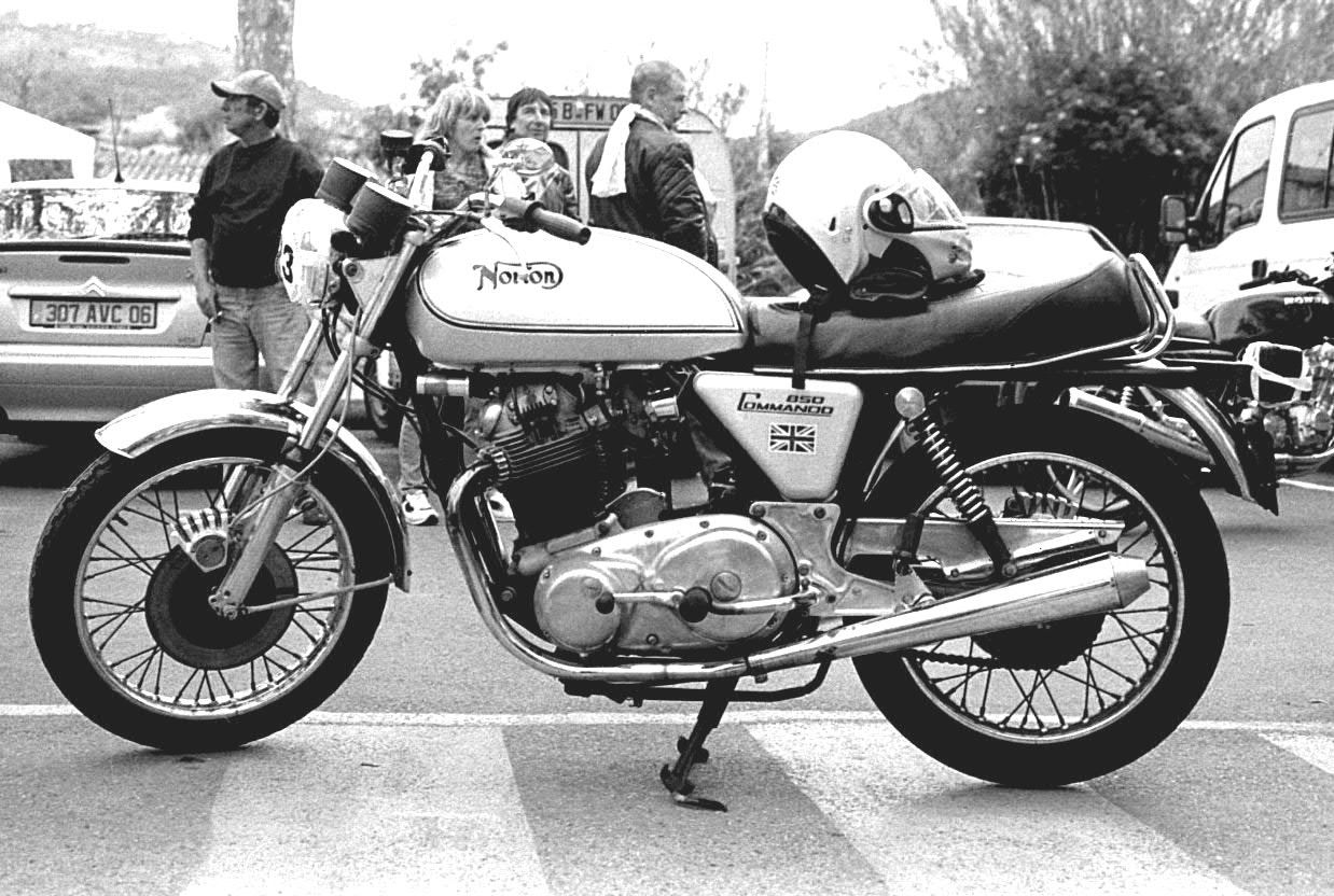 Norton 850 Commando Retro-classic Pegomas-Tanneron 2005